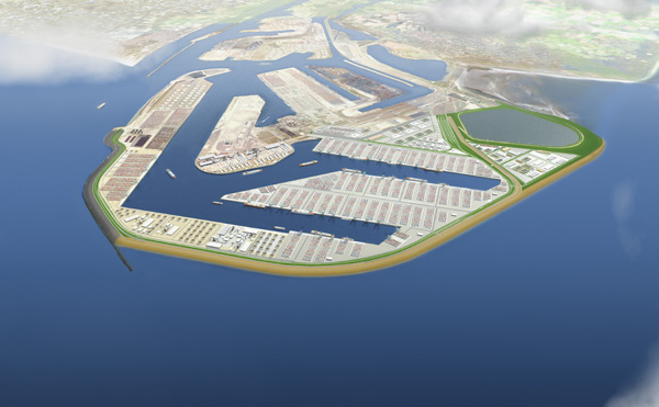 Computer-animated Picture showing the Maasvlakte 2 project of Mainport Rotterdam. Sight from North-West